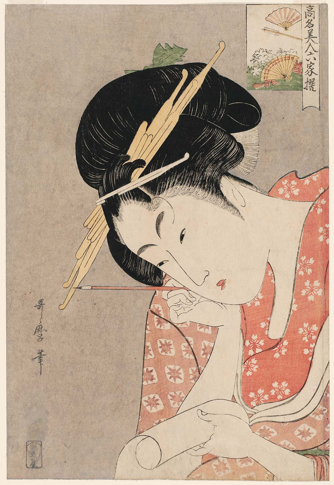 Ukiyo-e print from the six-print series Kōmei bijin rokkasen